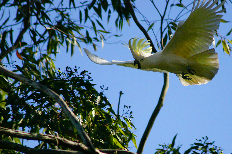 Sulphur-crested Cockatoo in flight in Sydney, Australia.